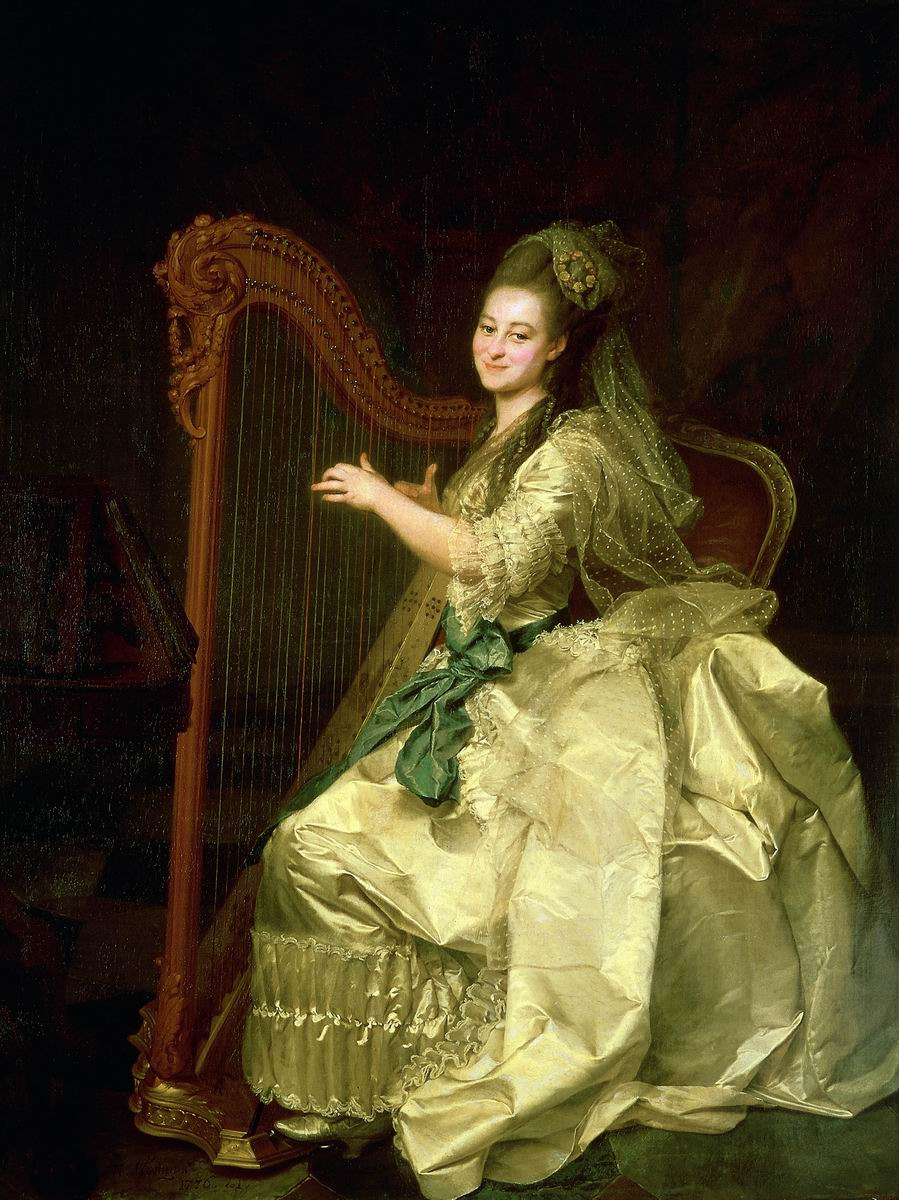 The portrait is one of the seven portraits of the students of Smolny Institute for Noble Maidens in St. Petersburg (the cycle Smolnyankas) painted by Dmitry Levitzky in 1772–1776.Glafira Alymova is painted in the uniform gown for special social events prescribed for senior girls, the students of so-called “forth age”.